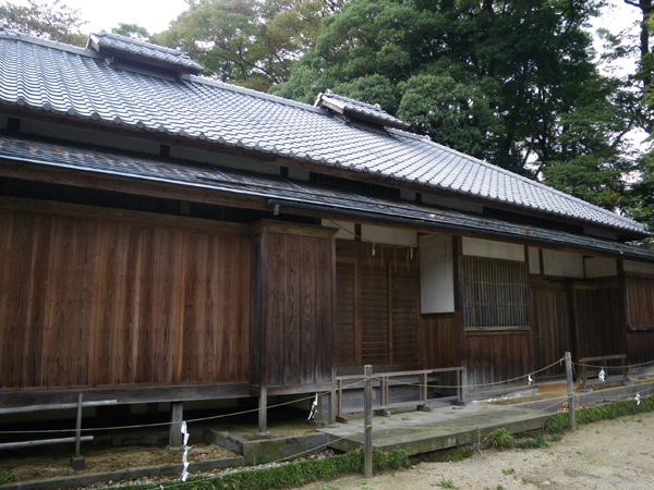 Nogi Maresuke's second house at Nogi-jinja Shrine. Nasushiobara, Tochigi, Japan.